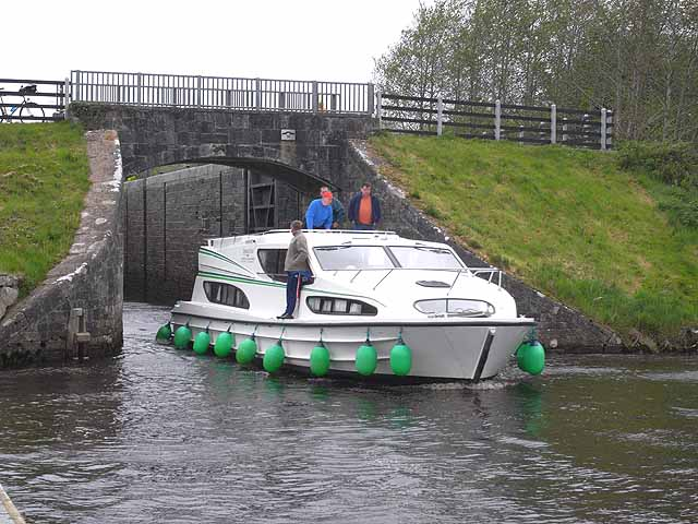 Castlefore Lock on the Shannon-Erne Waterway The first attempts to construct a canal linking the Shannon and Erne dated back to 1780, but it was not until 1847 that construction of what was then known as the Ballinamore and Ballyconnell Canal started in earnest. By the time of completion in 1858, money had run out, competition from the railways severely impacted on the canal's commercial viability, and the requirements of drainage over-rode the requirements of navigation. Over the course of nine years, only eight boats were recorded as using the canal (although others probably did so without paying their dues). The canal was thereupon abandoned for navigation and the construction of railway bridges with low headroom over the canal put the final nails in the coffin of a project which had never been properly completed in the first place. The idea of connecting the two main river systems of Ireland was revived in 1988 as a flagship project of cooperation between the Irish Republic and Northern Ireland. Work started in 1990 with completion in 1994. Essentially a new construction along the line of the old canal, the waterway links a number of loughs along the way. The canal is 61 km long and links the Shannon at Leitrim village with the Erne downstream from Belturbet. There are 16 locks on the canal; the Castlefore Lock is the first on the eastern section on the descent from the summit level of Lough Scur. The Waterway is a major tourist attraction - not only being used by boats, but also followed by a waymarked footpath and scenic drive. The Kingfisher Trail, the first signed cycle route to be established in Ireland, follows parts of the Waterway.